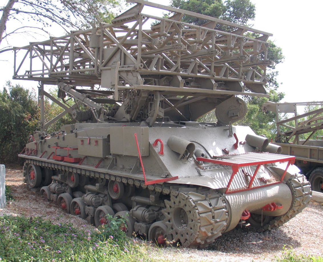 Description: Israeli MAR-290 290 mm ground-to-ground missile launcher on M4 Sherman chassis in Beyt ha-Totchan, Zichron Yaakov, Israel. 2005. Source: Photo by me, User:Bukvoed.